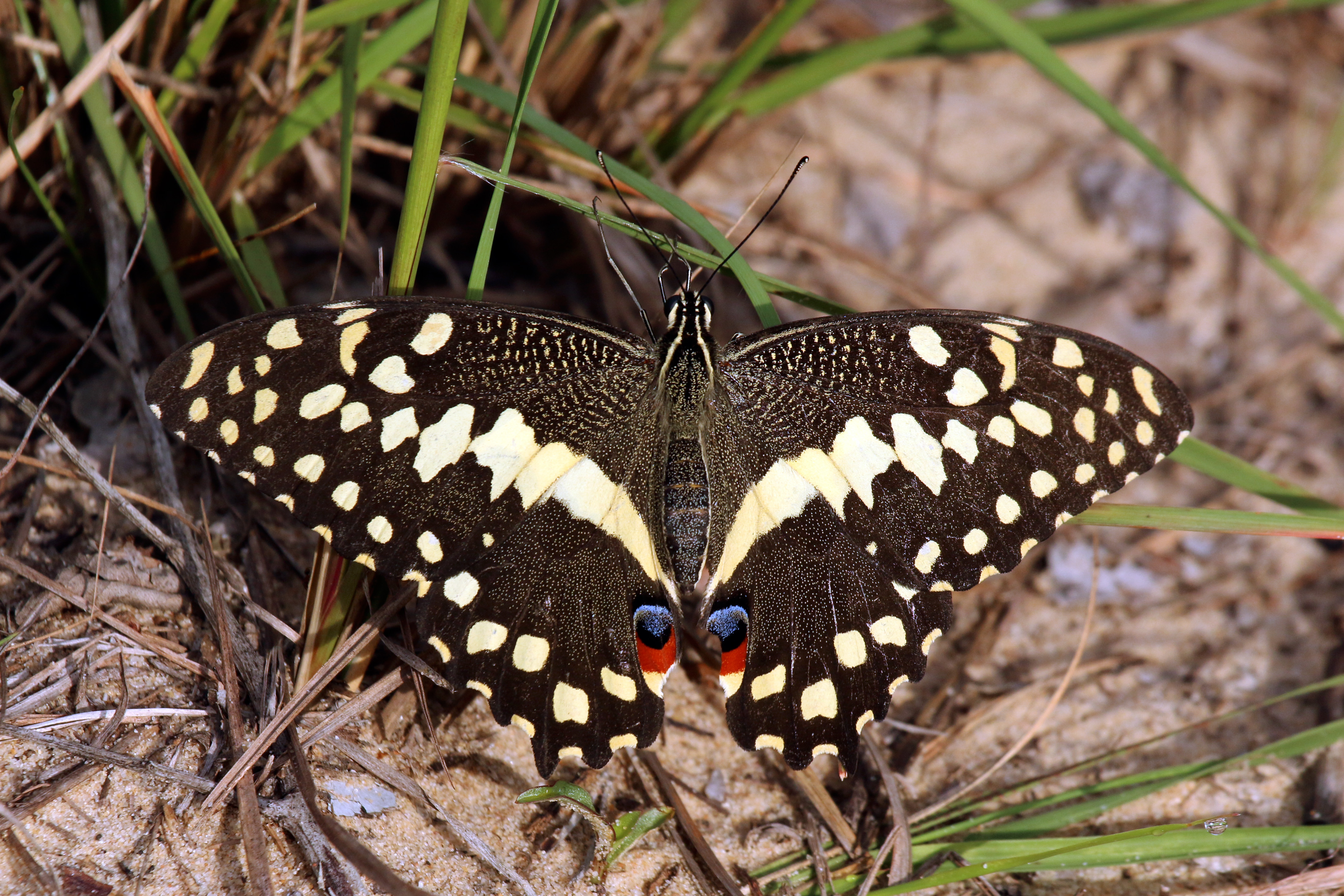 Citrus swallowtail Christmas butterfly (Princeps papilio demodocus), Lake Sibaya, KwaZulu Natal, South Africa